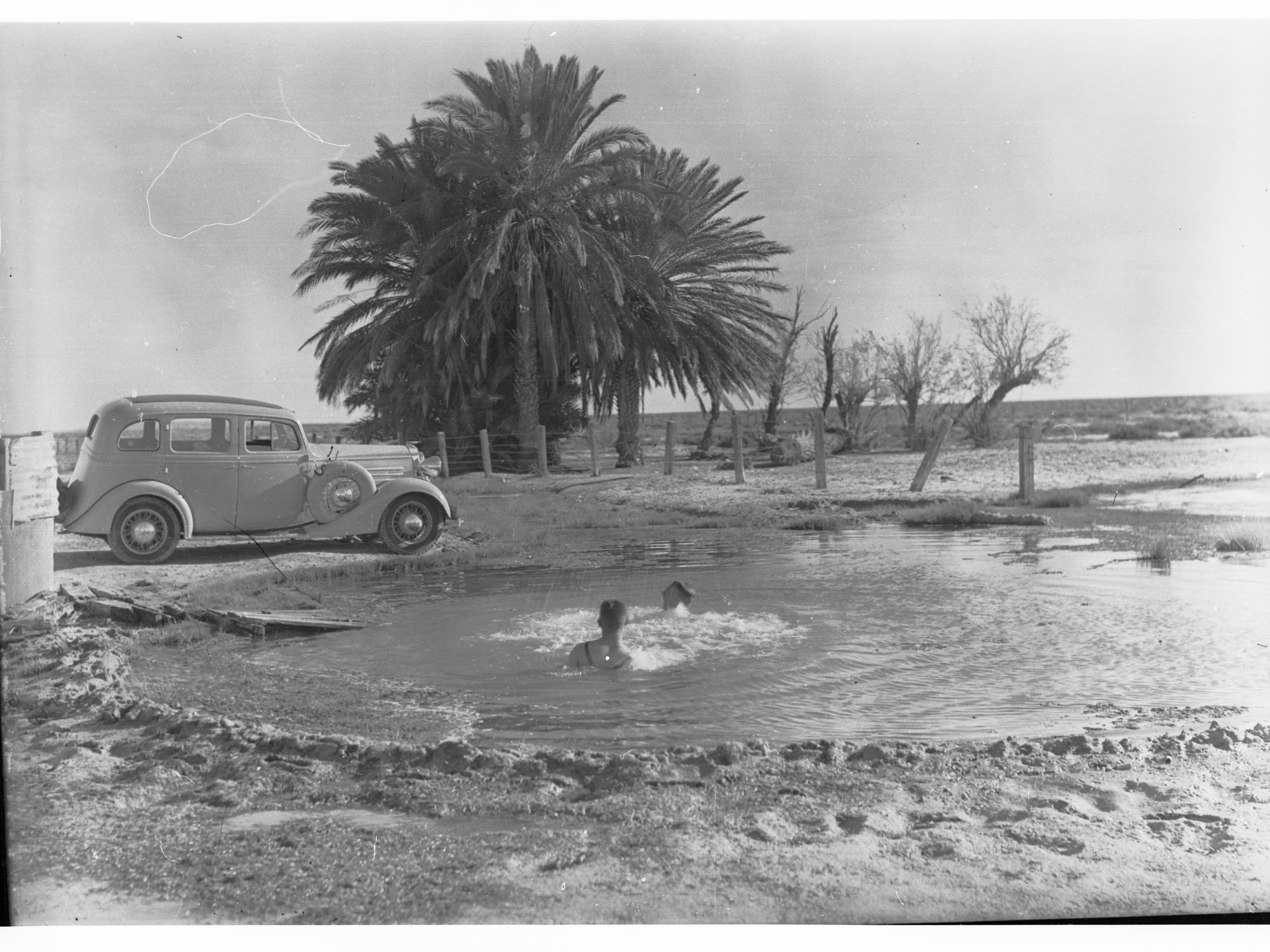 Two men are bathing in a bore at Coward Springs. Coward Springs is located in South Australia. A government bore was completed on 16 July 1886. It was 400 feet deep and the artesian water rose 15 feet into the air from the bore. The salty water from the Great Artesian Basin had quickly corroded the bore head and bore casing and so by the 1920s millions of gallons of water flowed without control over the dry gibber plains, creating a wetland. A large pool formed where water bubbled from the corroded bore and was popular with railway passengers, crew, residents and locals alike. This image is part of a series of photographs taken by Captain Frank Hurley in 1935.